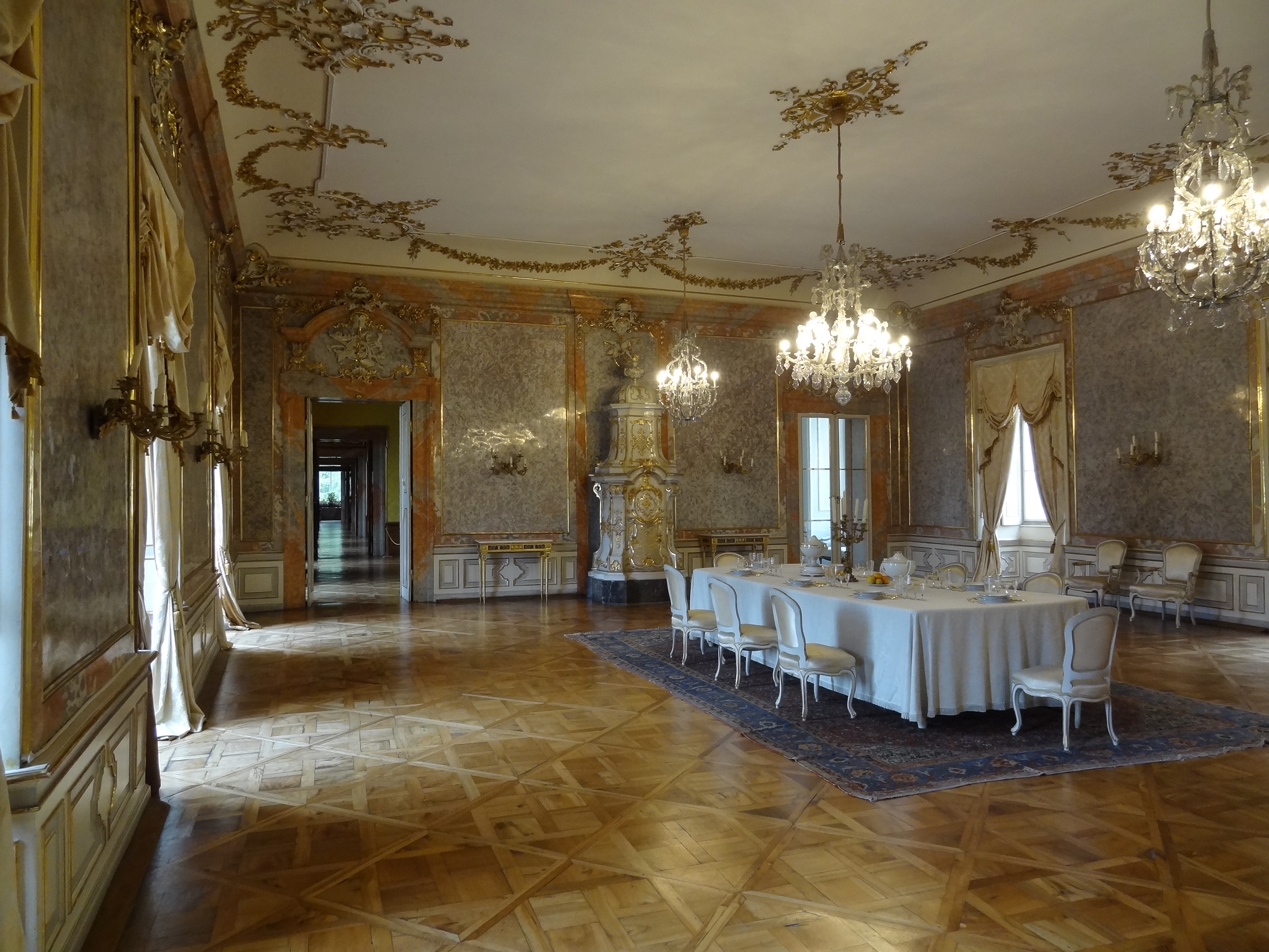 Valtice Castle dining room